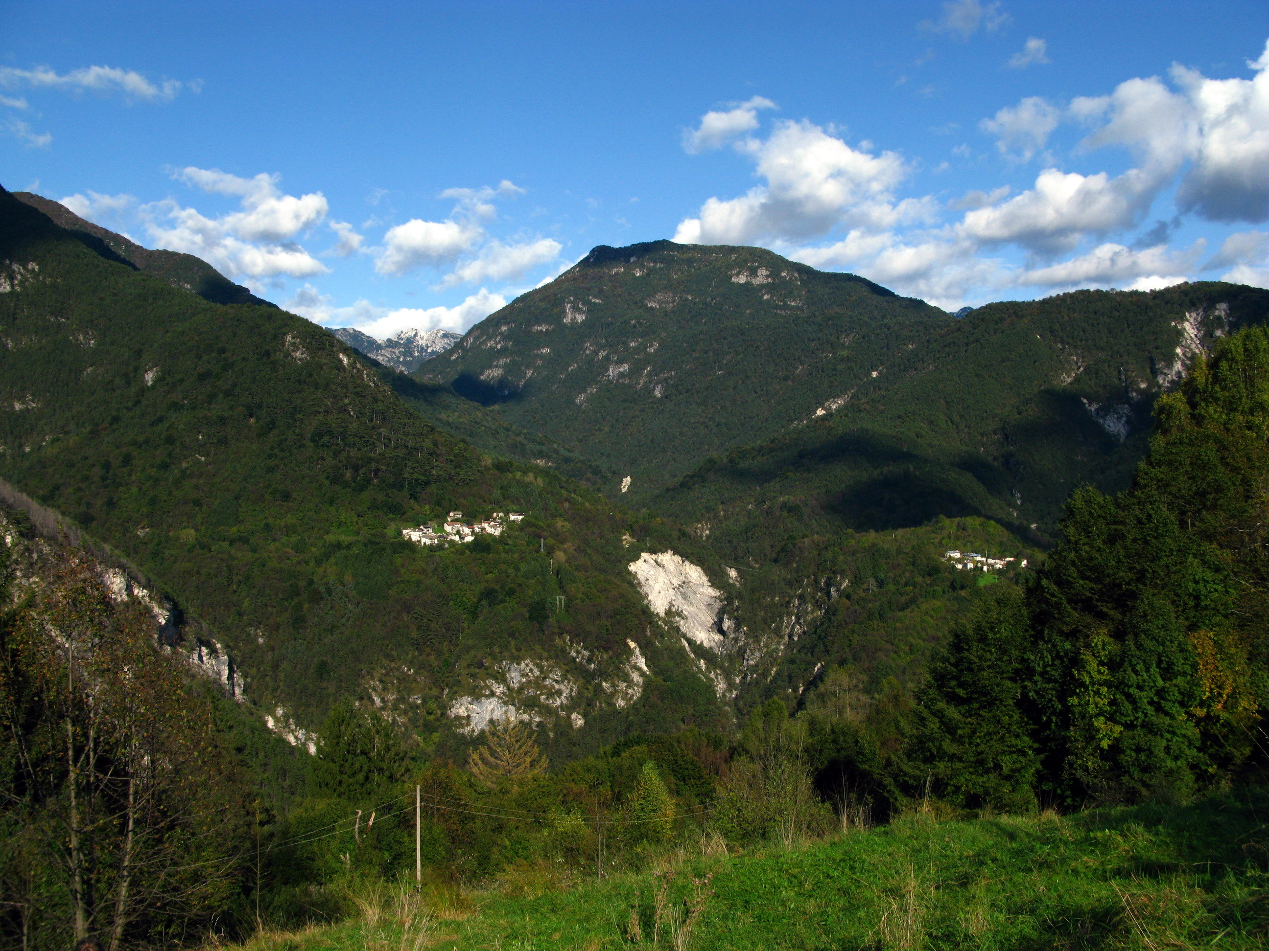 Moggessa di Là (left) und Moggessa di Qua (right), two nearly abandoned villages near Moggio Udinese / Friuli-Venezia Giulia / Italy / EU.